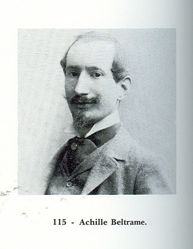 Photographic portrait of Achille Beltrame (1871 - 1945)